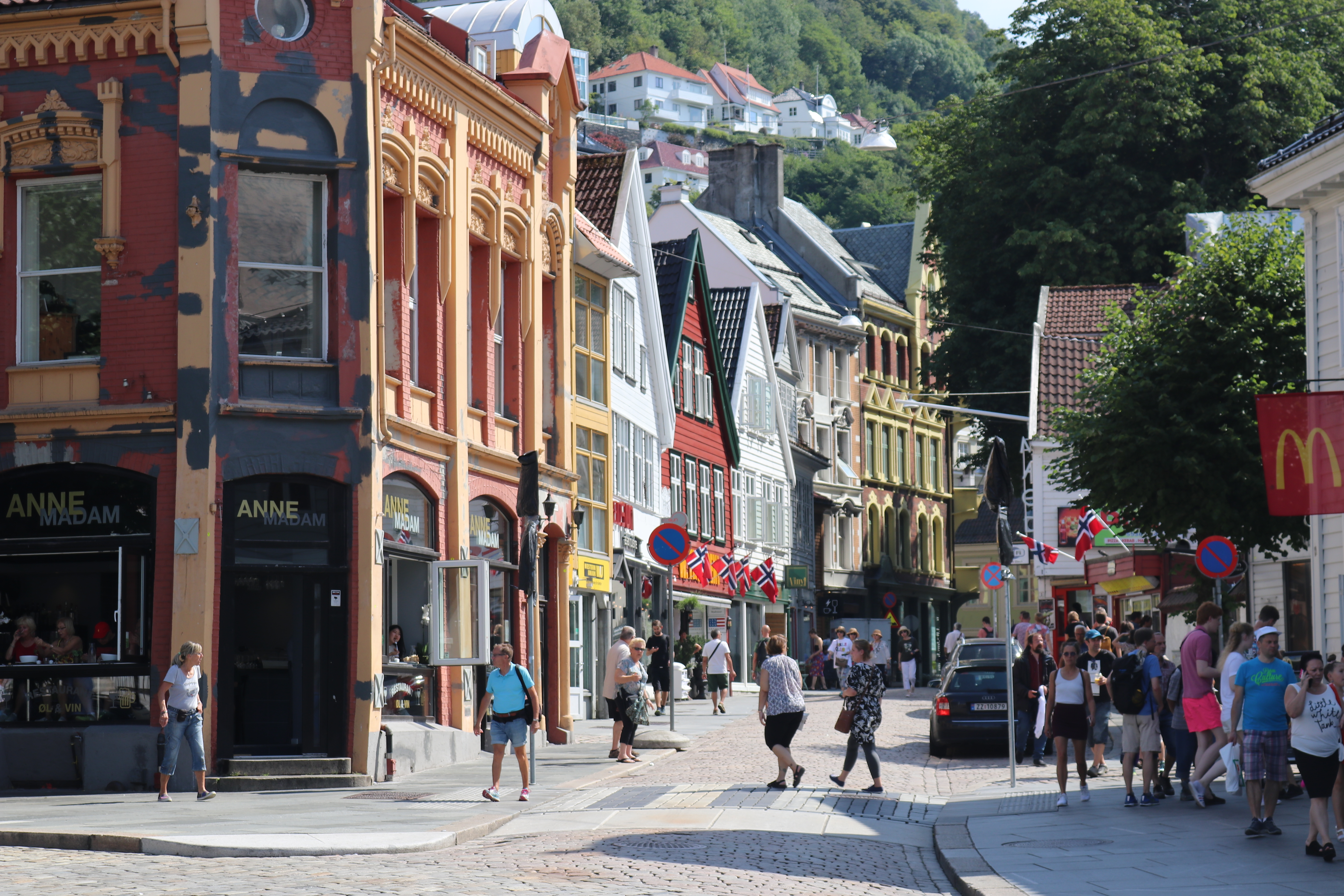 Kong Oscars gate in Bergen in the summer of 2018.